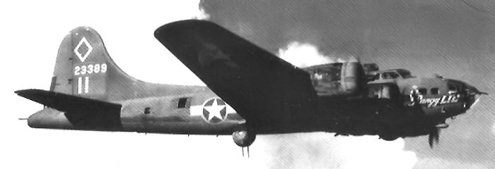 B-17F 42-3399 was assigned to the 347th Bomb Squadron at Oudna Airfield, Tunisia in August 1943. and it is seen wearing the group's dittinctive diamond Marking On the tail, along with the Roman II associated with the squadron. Christened "Rangy Lil", the aircraft was passed on to the 340th Bomb Squadron, 97th Bomb Group in autumn 1943, but was lost on a mission to Toulon, France. (USAAF Photograph). The aircraft crashed at 01.10.1943 with eleven persons in Filisur (Switzerland) near Alpsut, five soldiers survived.